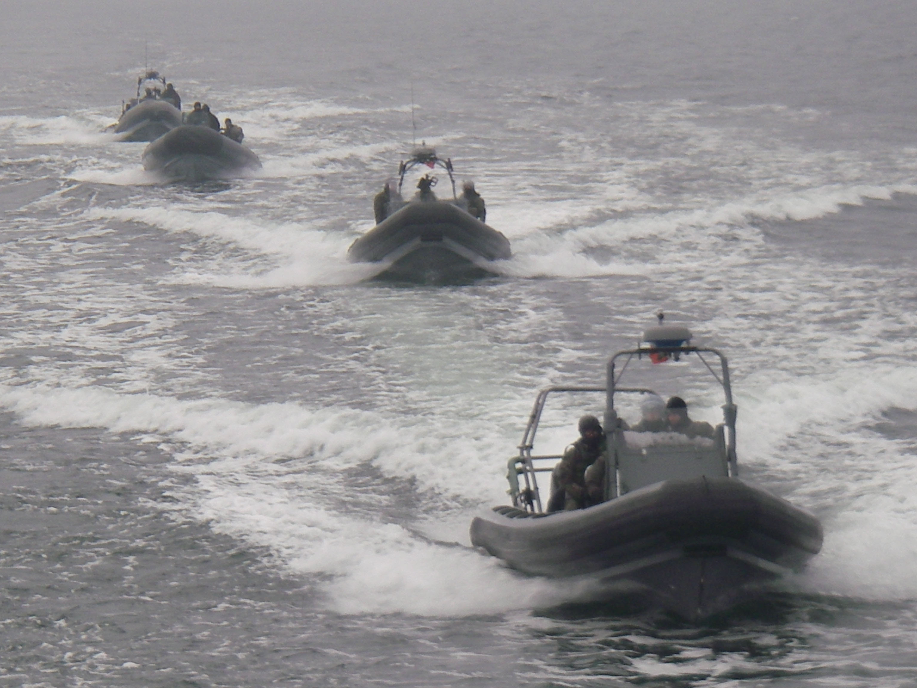 Poland — U.S. Navy SEALs assigned to Special Operations Command Europe and Polish GROM operators quickly advance towards their target during bilateral exercises near Gdansk, Poland in early February 2009. Both forces further developed their interoperability skills as part of the USEUCOM active security strategy.